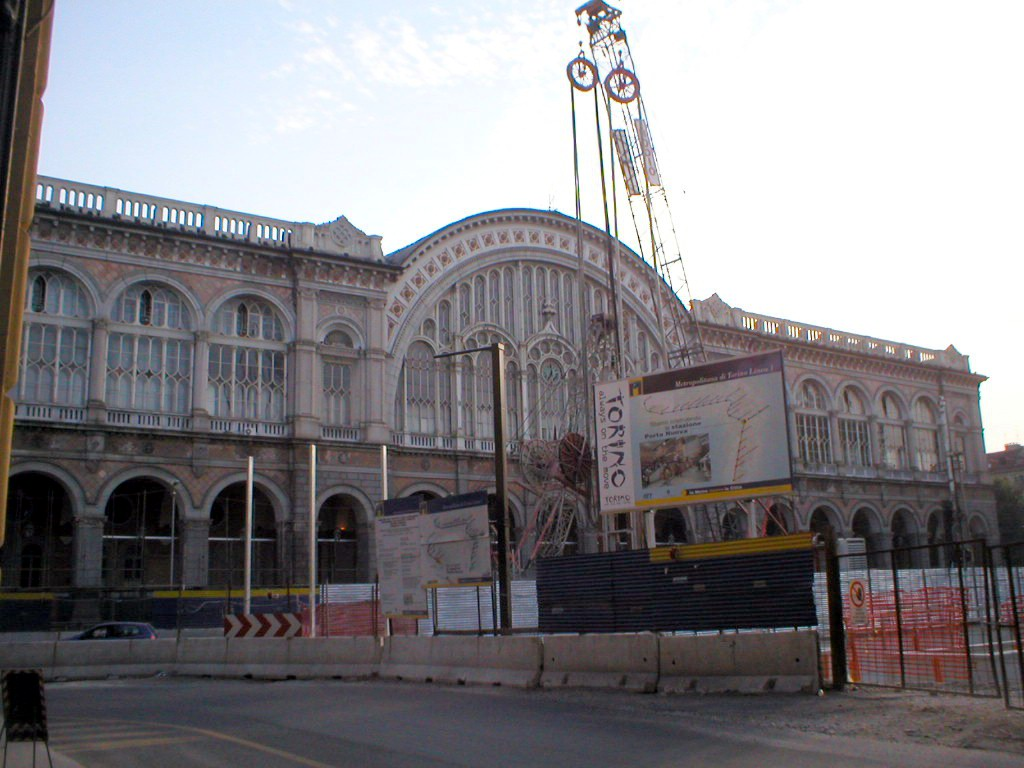 Construction works for the Turin Metro in front of the station "Porta Nuova"